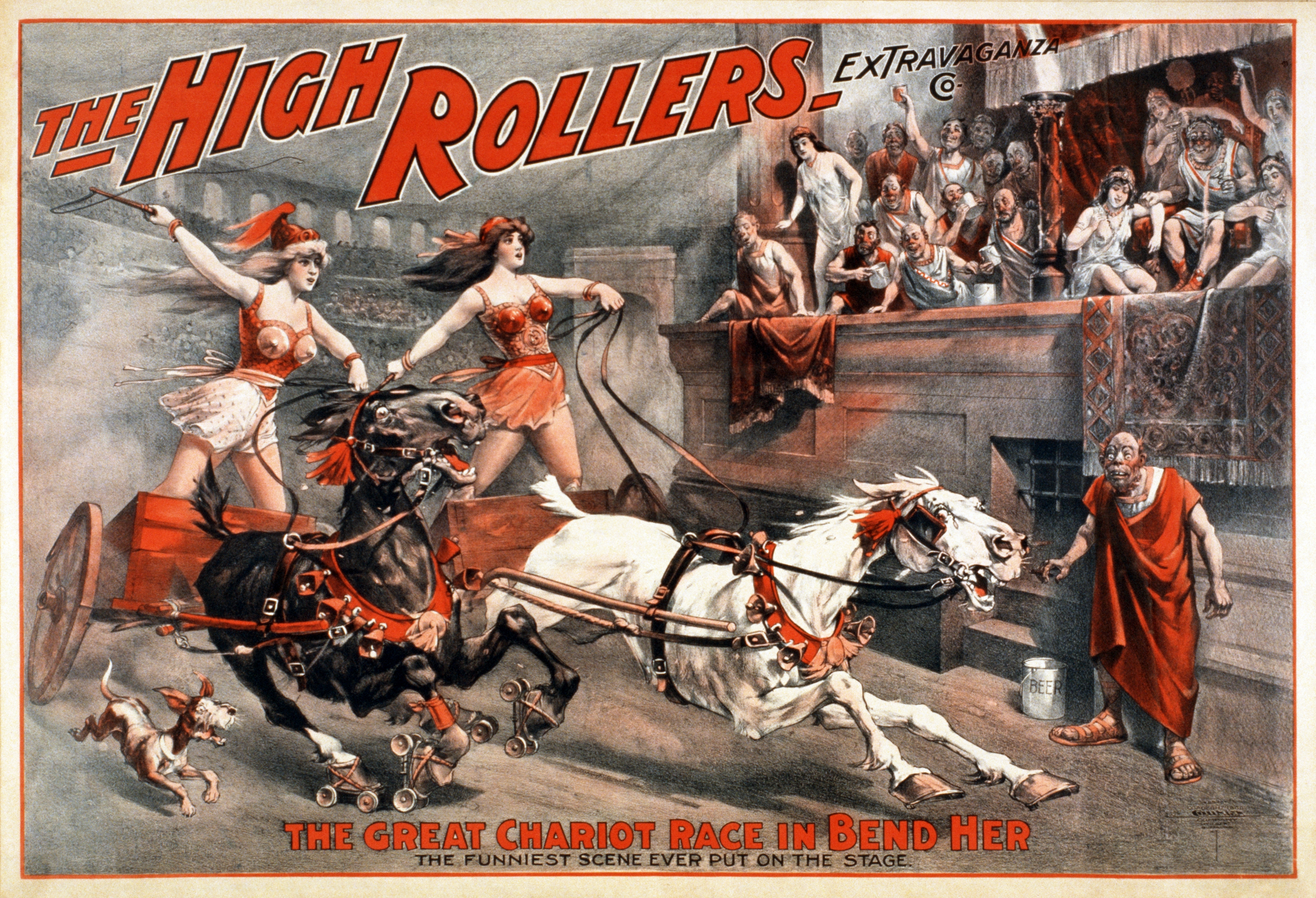 "The High Rollers Extravaganza Co.: The Great Chariot Race in Bend Her." Poster for an American burlesque from 1900.